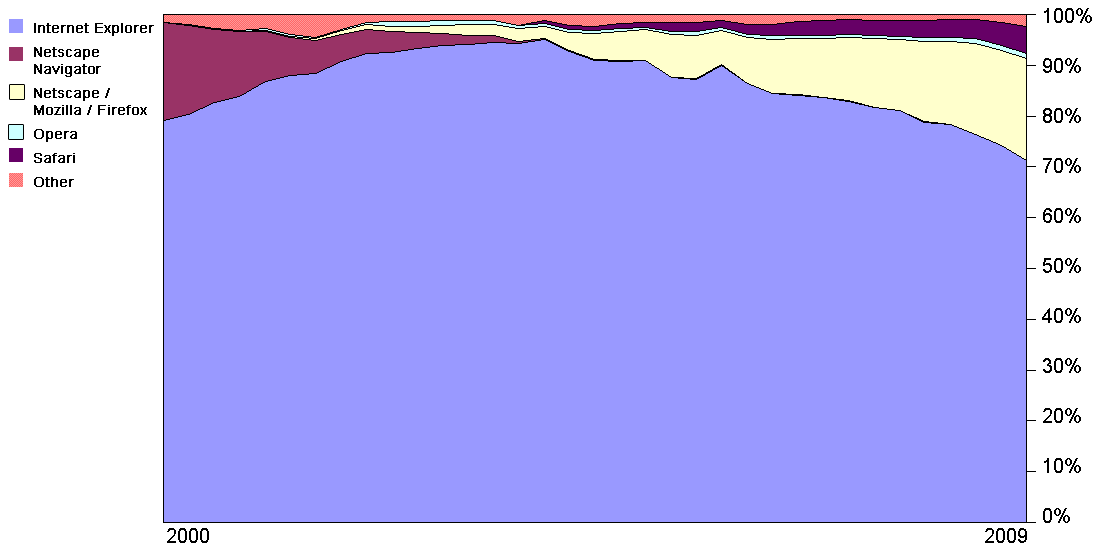 Usage share of web browsers history from 2000 to 2009 (Source )